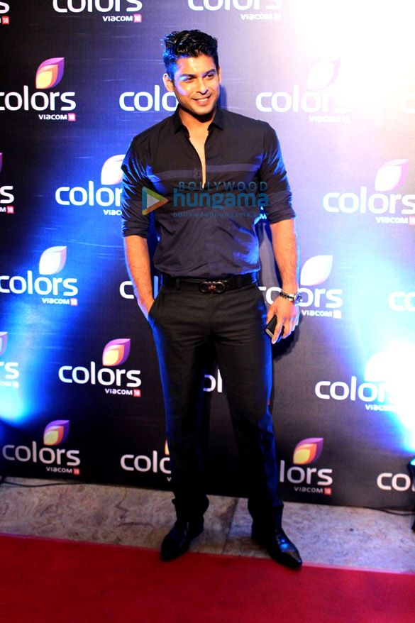 Sidharth at red carpet